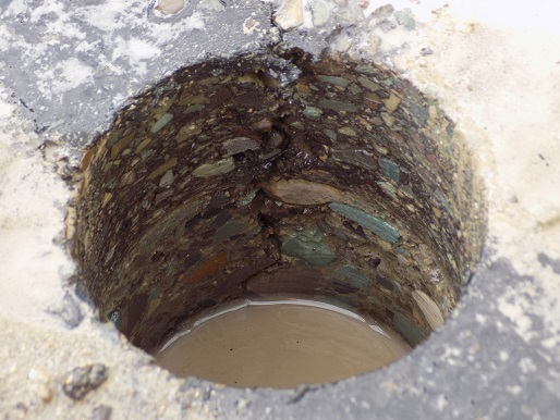 This reflective crack came up from the concrete layer of a composite pavement.